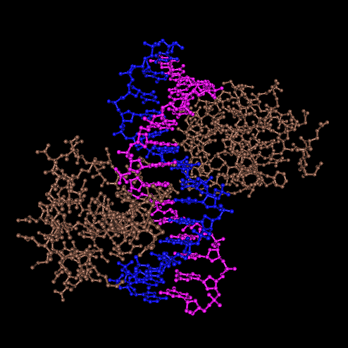 Oct-4 transcription control protein. Made using data from here.